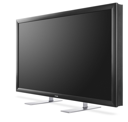 Philips 3D Television 42-inch